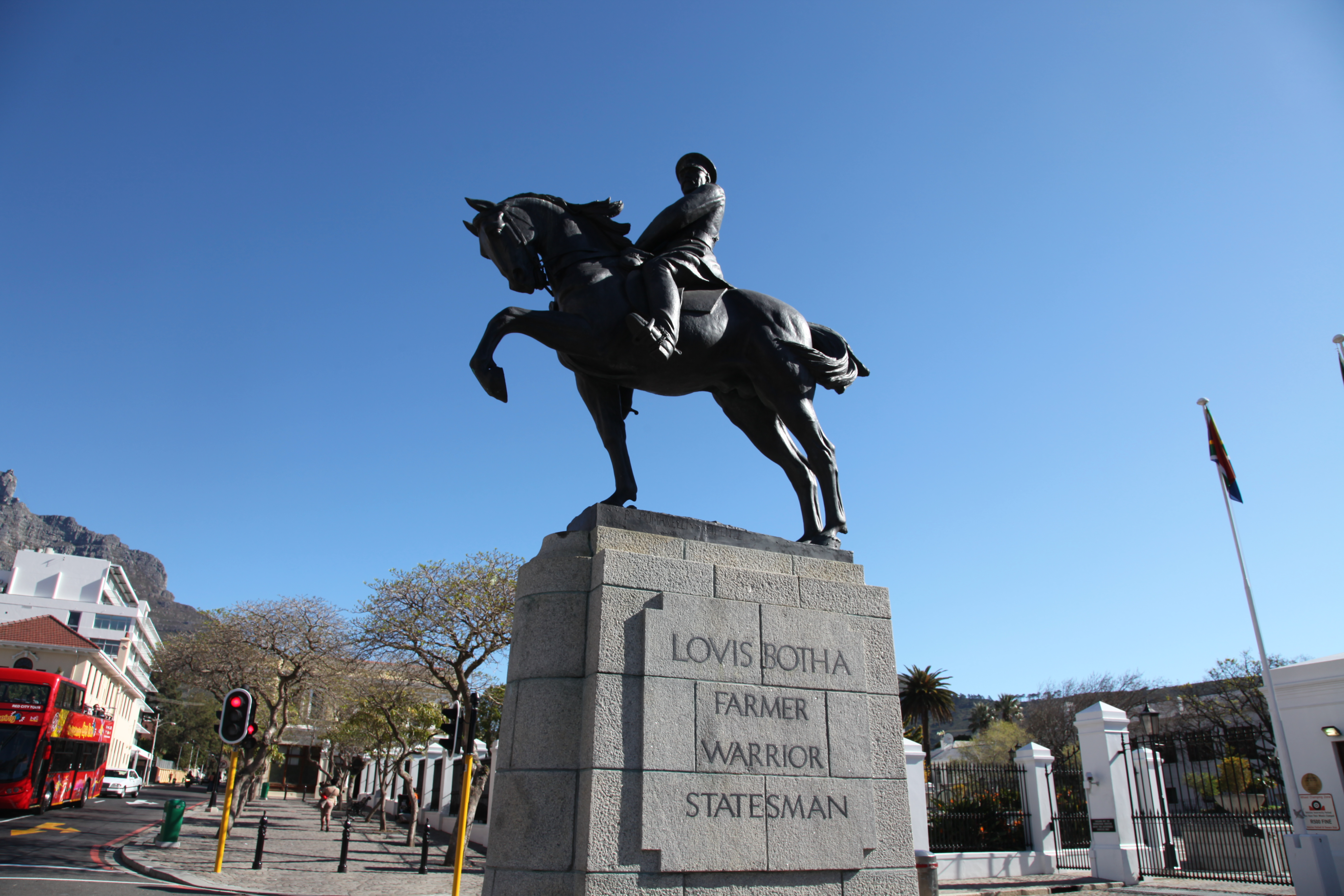 A statue of Louis Botha on Stal Plein in front of the Houes of Parliament in Cape Town. It was made by Raffaello Romanelli. Lady Helen de Waal, wife of Sir Frederick de Waal, Administrator of the Cape Province, unveiled the statue on 10 February 1931.